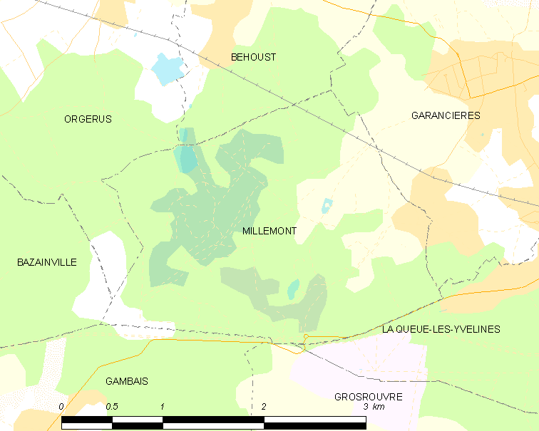 Map of French municipality Millemont